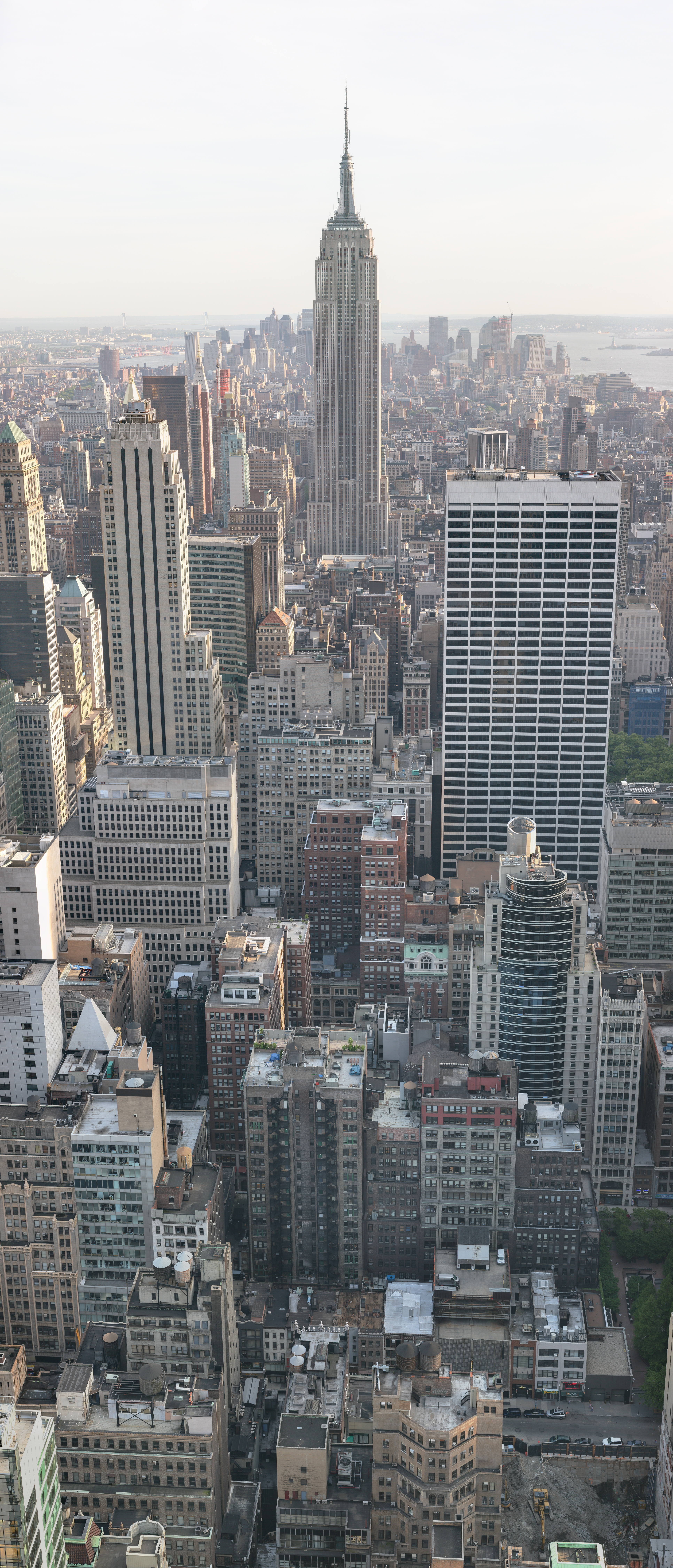 View of the Empire State Building as seen from the Rockefeller Center. Assembled from 45 images using hugin. Images were taken with automatic exposure, assembled using exposure matching into a high dynamic range image stack, converted to low dynamic range using enfuse.